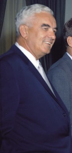 Representatives of American League Baseball Present Season Pass to President John F. Kennedy